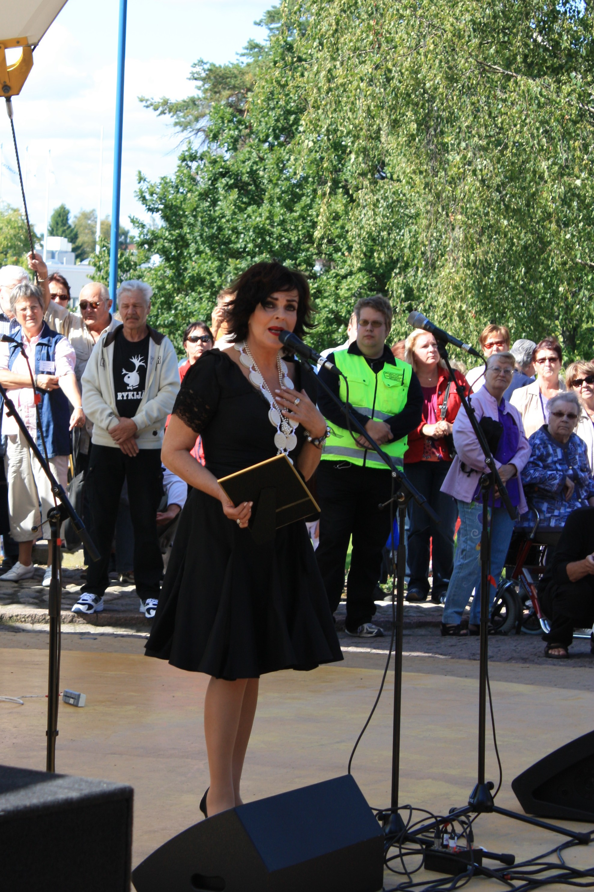 Garlic Festival 2009: Paula Koivuniemi gets a Honorary Diploma of The Friends of Garlic on Aurinkomäki Stage.